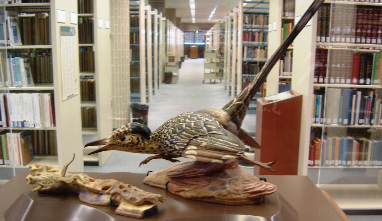 The RoadRunner, a local Texan celebrity. The 4th floor of the Dolph Briscoe Jr. Library, UTHSCSA.